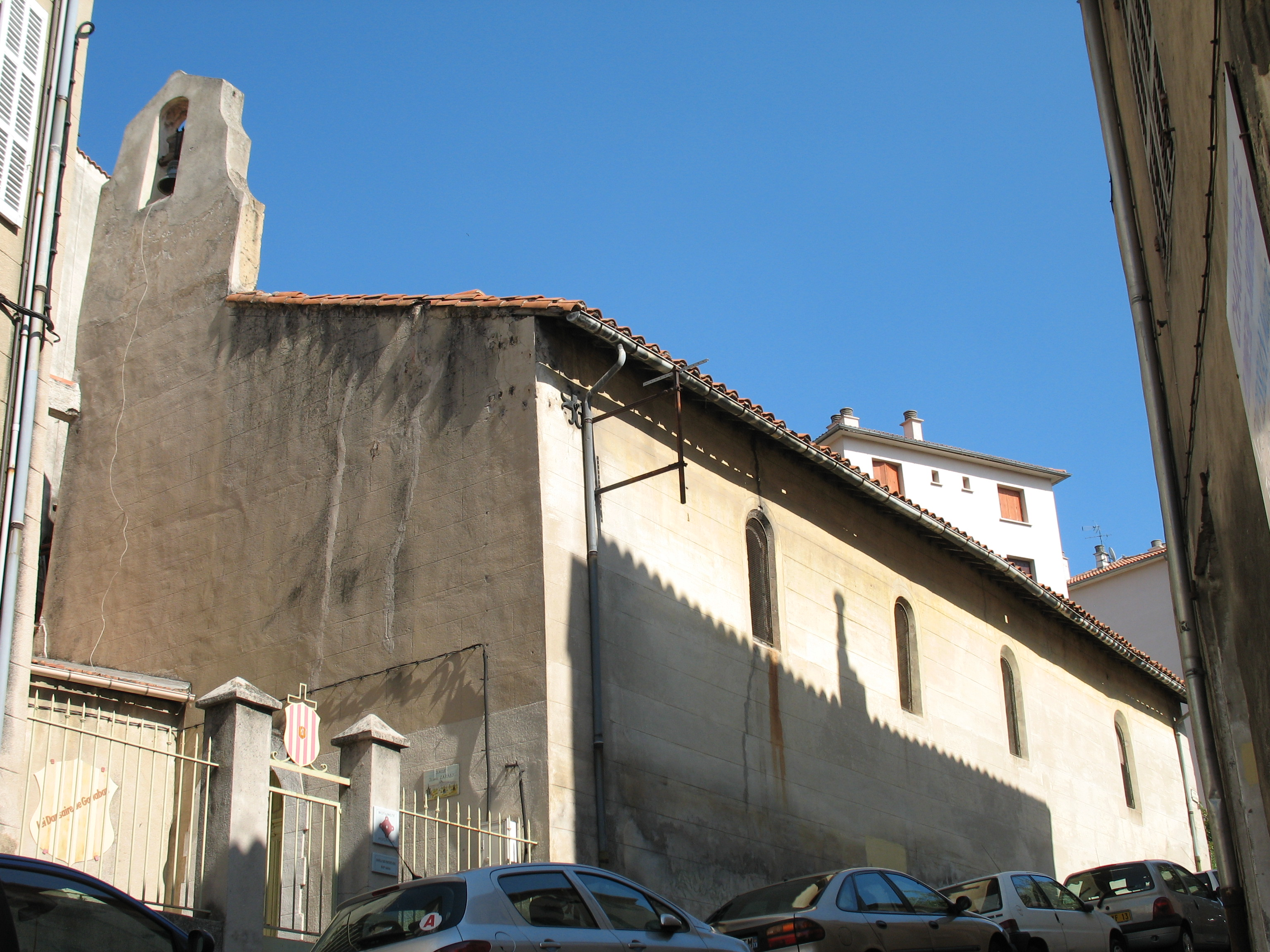 Chapel of Grey Penitents Aubagne (northward)